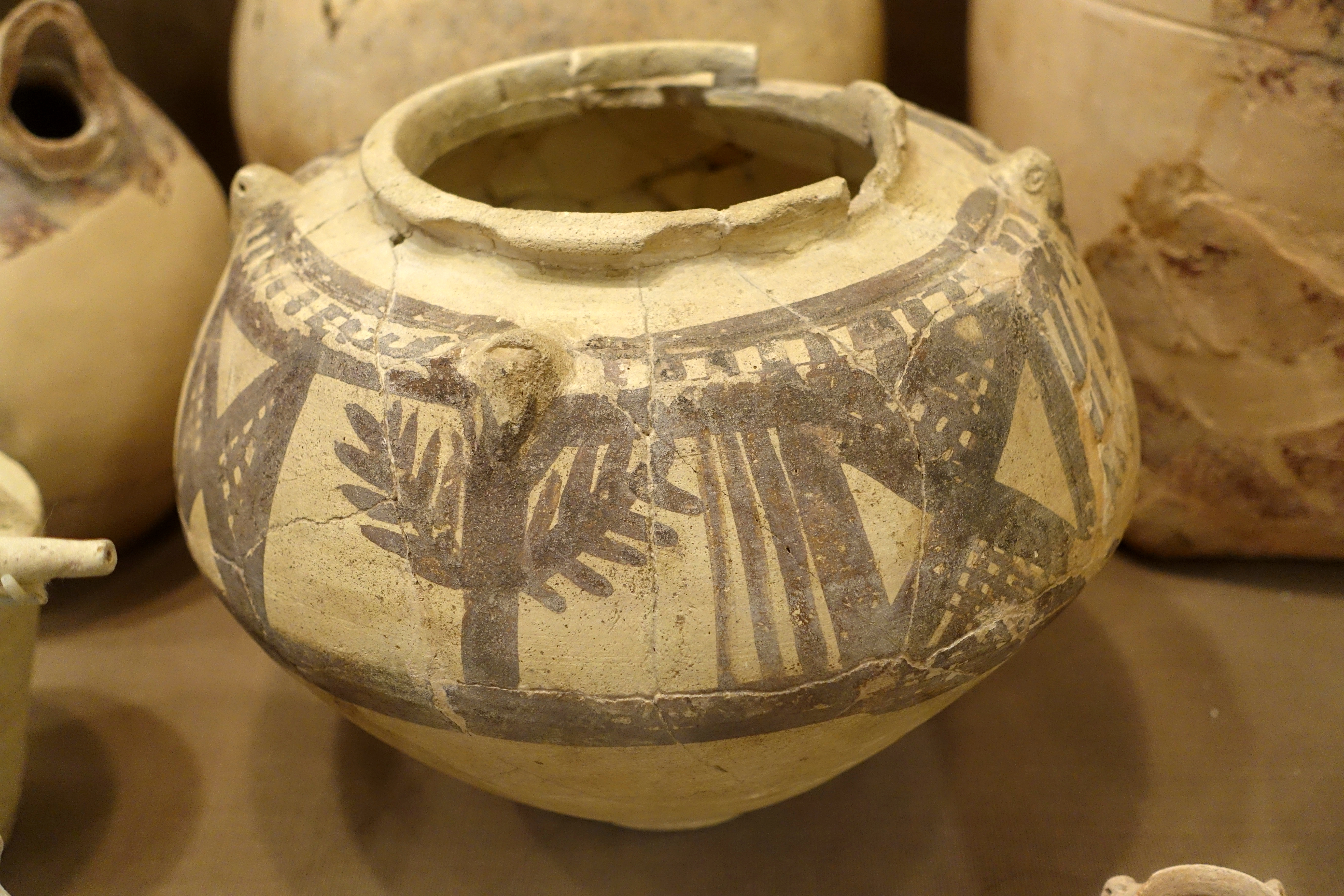 Exhibit in the Oriental Institute Museum, University of Chicago, Chicago, Illinois, USA. This work is old enough so that it is in the public domain.